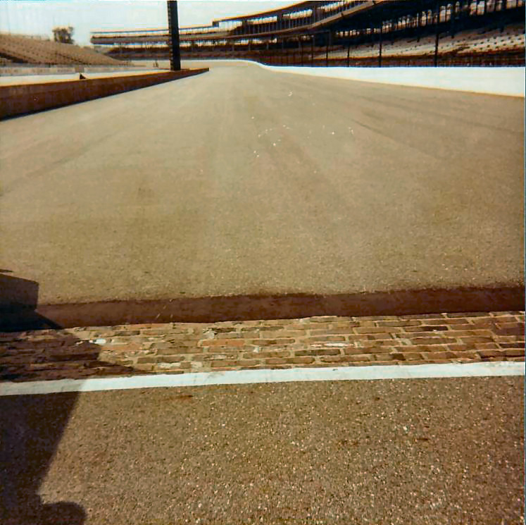 Bricks at the starting line of the Indy 500